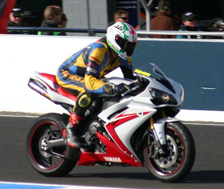 Kevin Magee on the Aussie legends ride around the track.